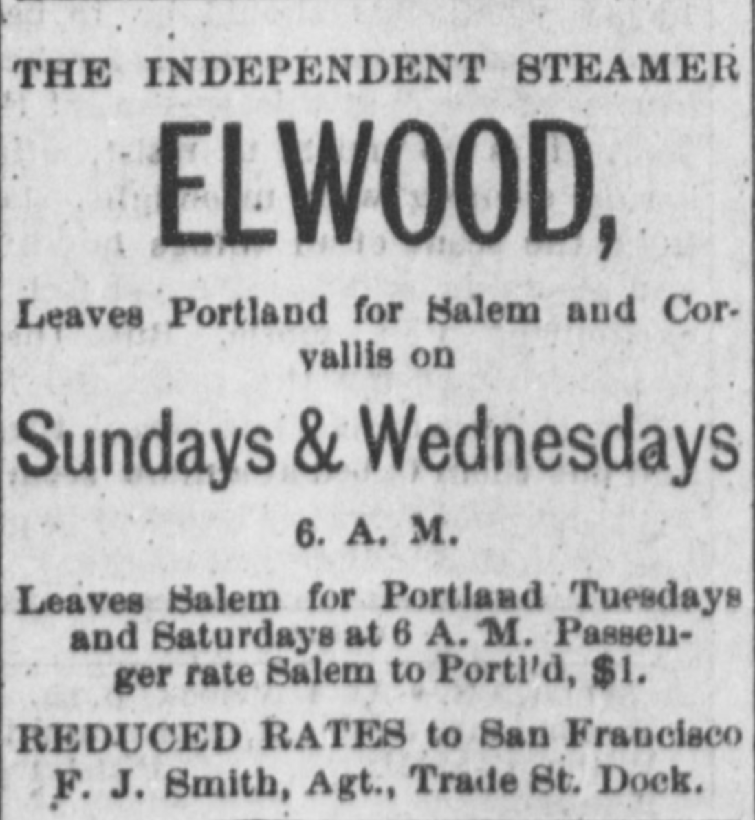 Advertisement for sternwheel river steamer Elwood, placed April 5, 1894 in the Capital Journal, Salem Oregon, at page 3, col.4